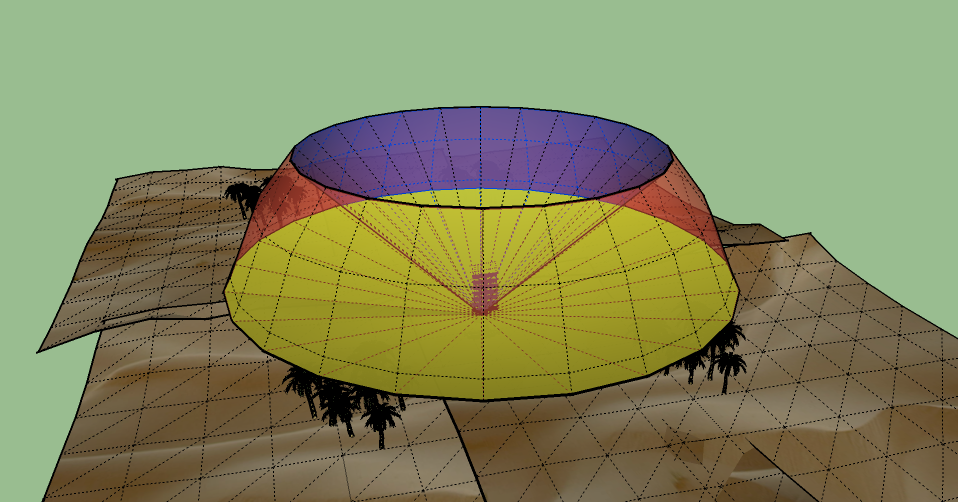 A simple 3D diagram (from Google Sketch) showing a representative radar coverage pattern. The rounded surface is the maximum range of the system (which may be "soft"), the lower limit is selected to avoid reflections from the ground, and the upper surface is the maximum angle, a factor of the antenna design.